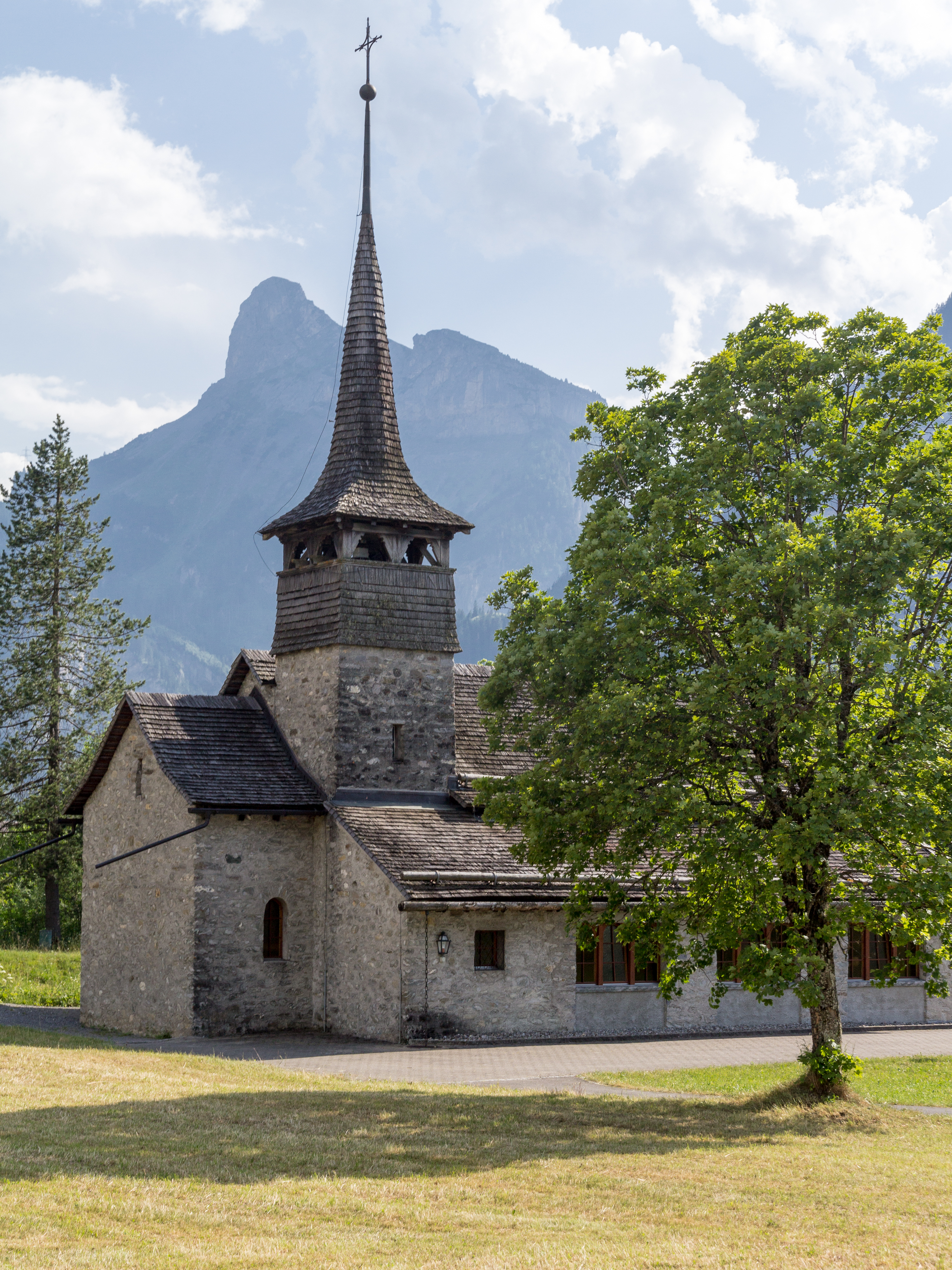 Catholic church of Kandersteg, Bernese Alps, Switzerland